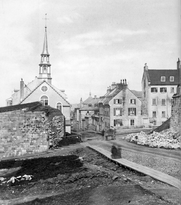 Location where the Kent gate would be built in 1878, Québec, Quebec, Canada